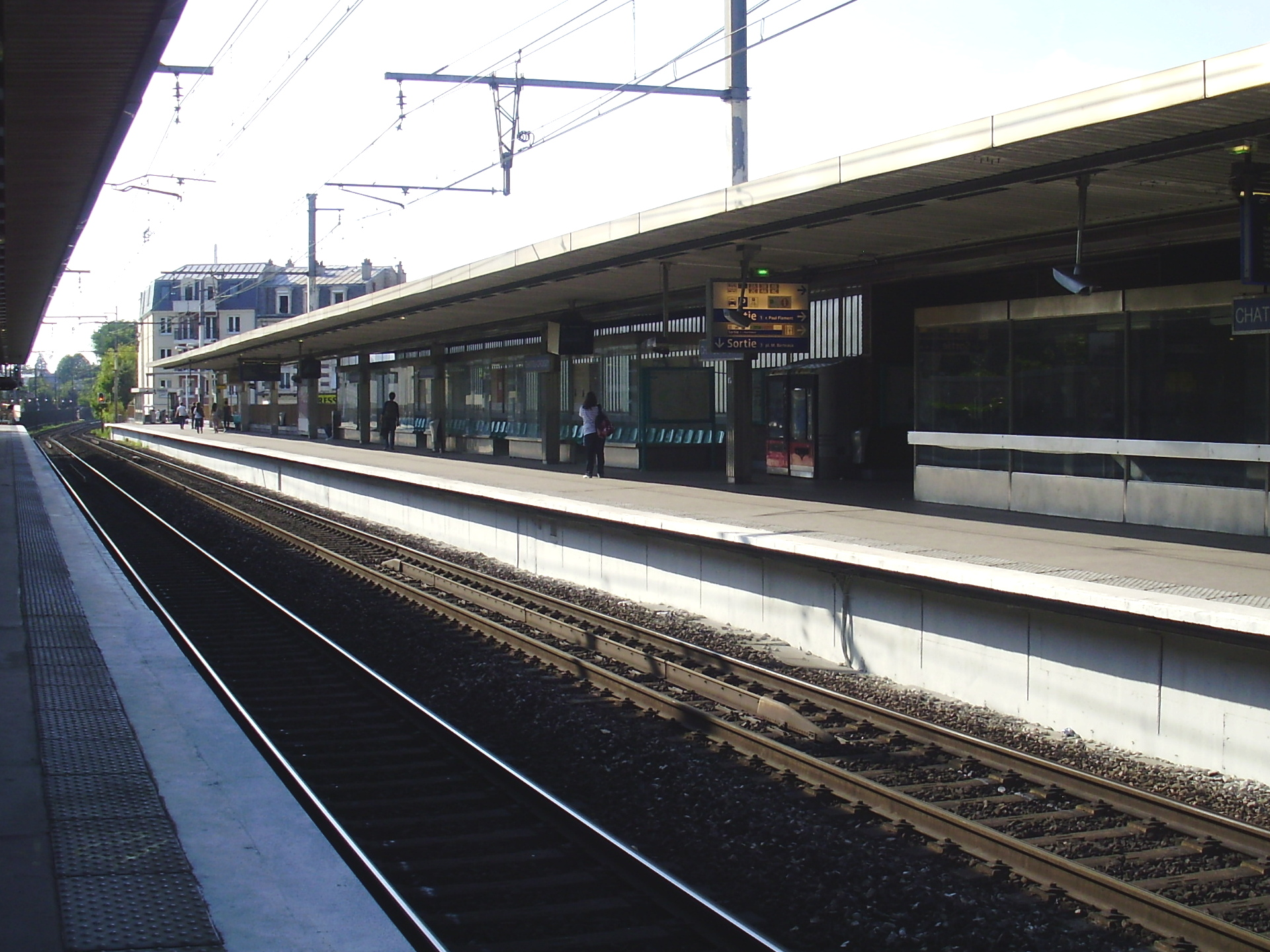 Chatou - Croissy station, in Chatou, Yvelines, France (view of the platform to Paris by looking towards Saint-Germain-en-Laye)